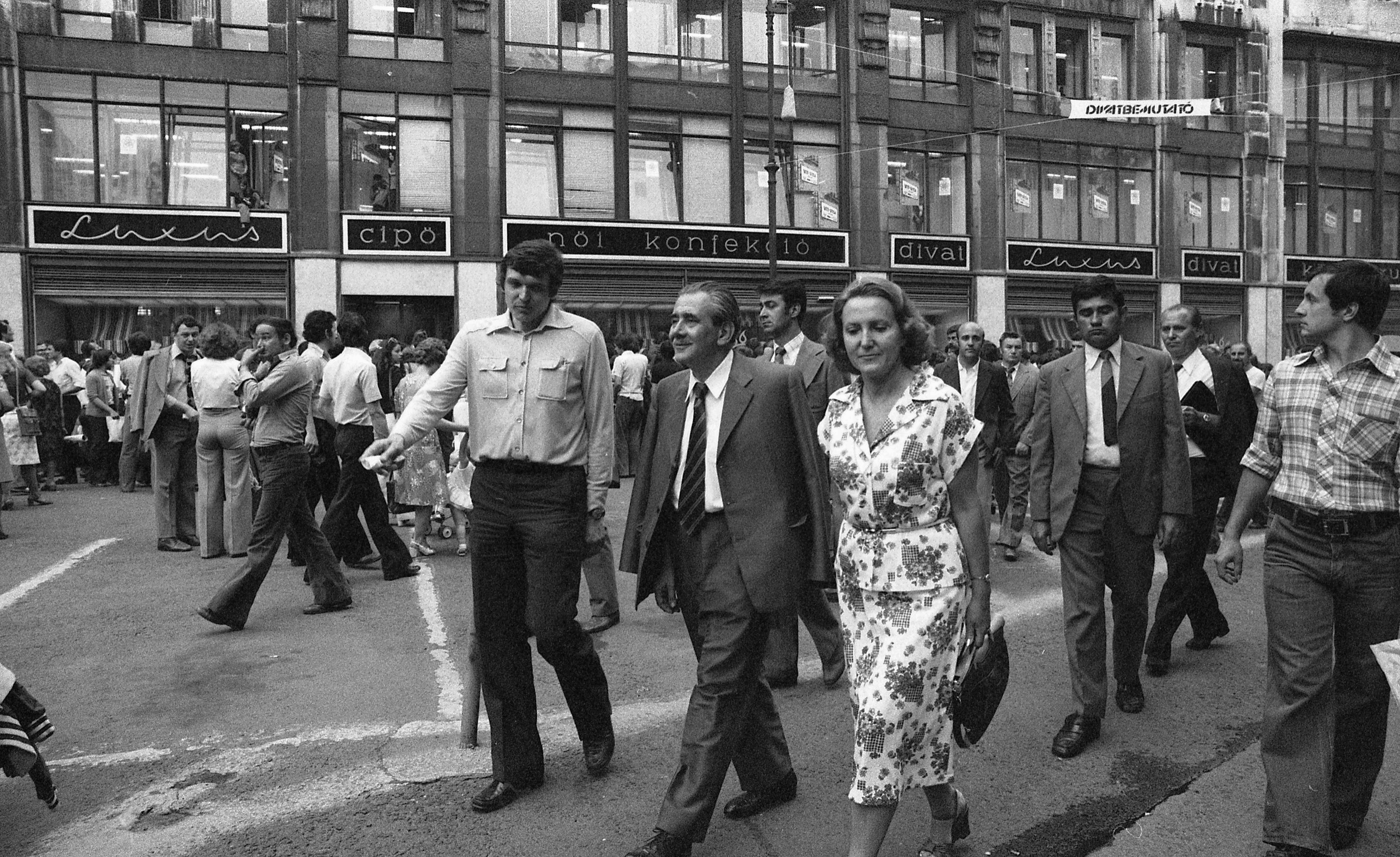 Vörösmarty Square, Budapest, during events of the World Festival of Youth and Students. Left: Csaba Hámori, First Secretary of the Hungarian Young Communist League (KISZ), with minister György Aczél (center).